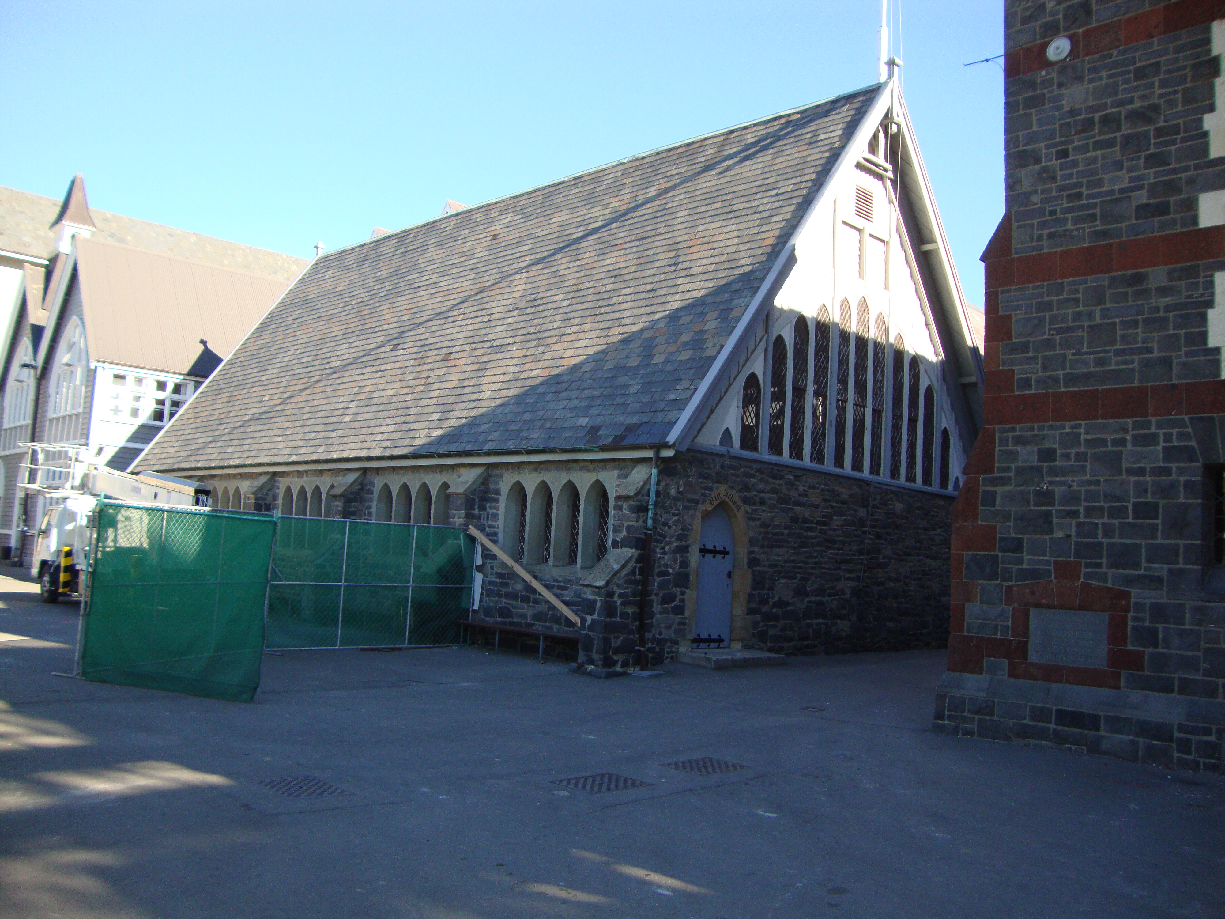 Big School.